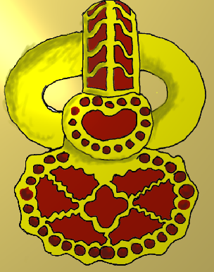 Gepidic Belt found in Apahida necropolis see Muzeul Naţional de Istorie